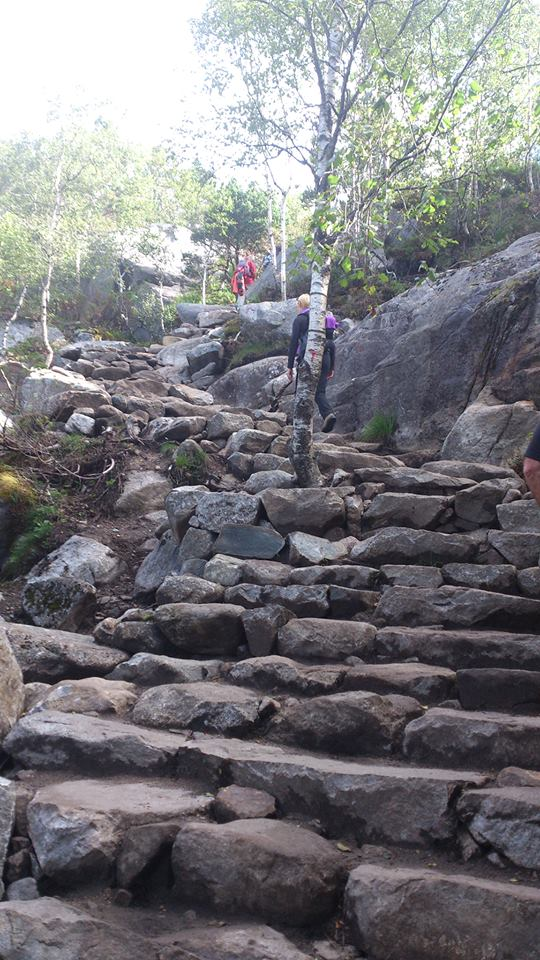 the way on preikestolen